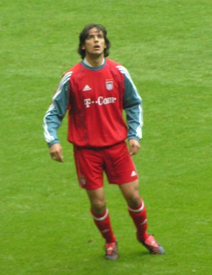 Roque Santa Cruz warm up while halftime at game against Arminia Bielefeld